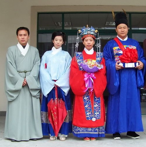 Traditional Chinese wedding attire